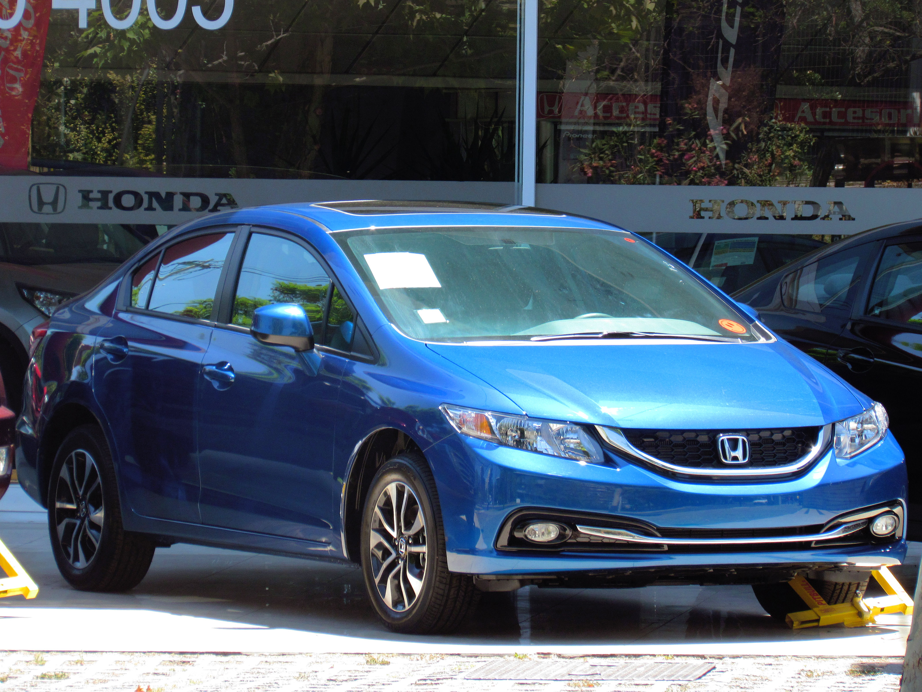 Honda Civic 1.8 EXL 2014